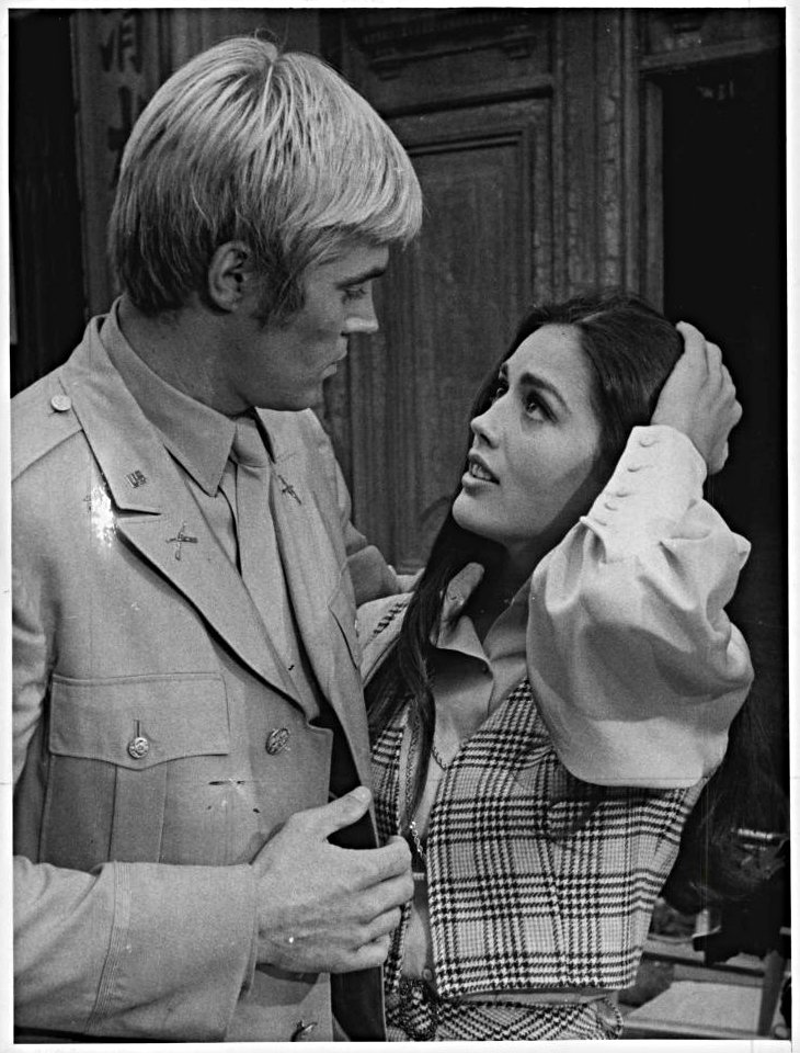 Publicity photo of Linda Harrison and Dennis Cole in NBC's Bracken's World, October 1969